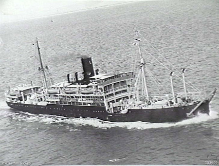 Australian Oriental Line's 4,324 GRT passenger steamship Taiping. In the Second World War she was requisitioned by the Royal Australian Navy and served as a naval stores issuing ship.